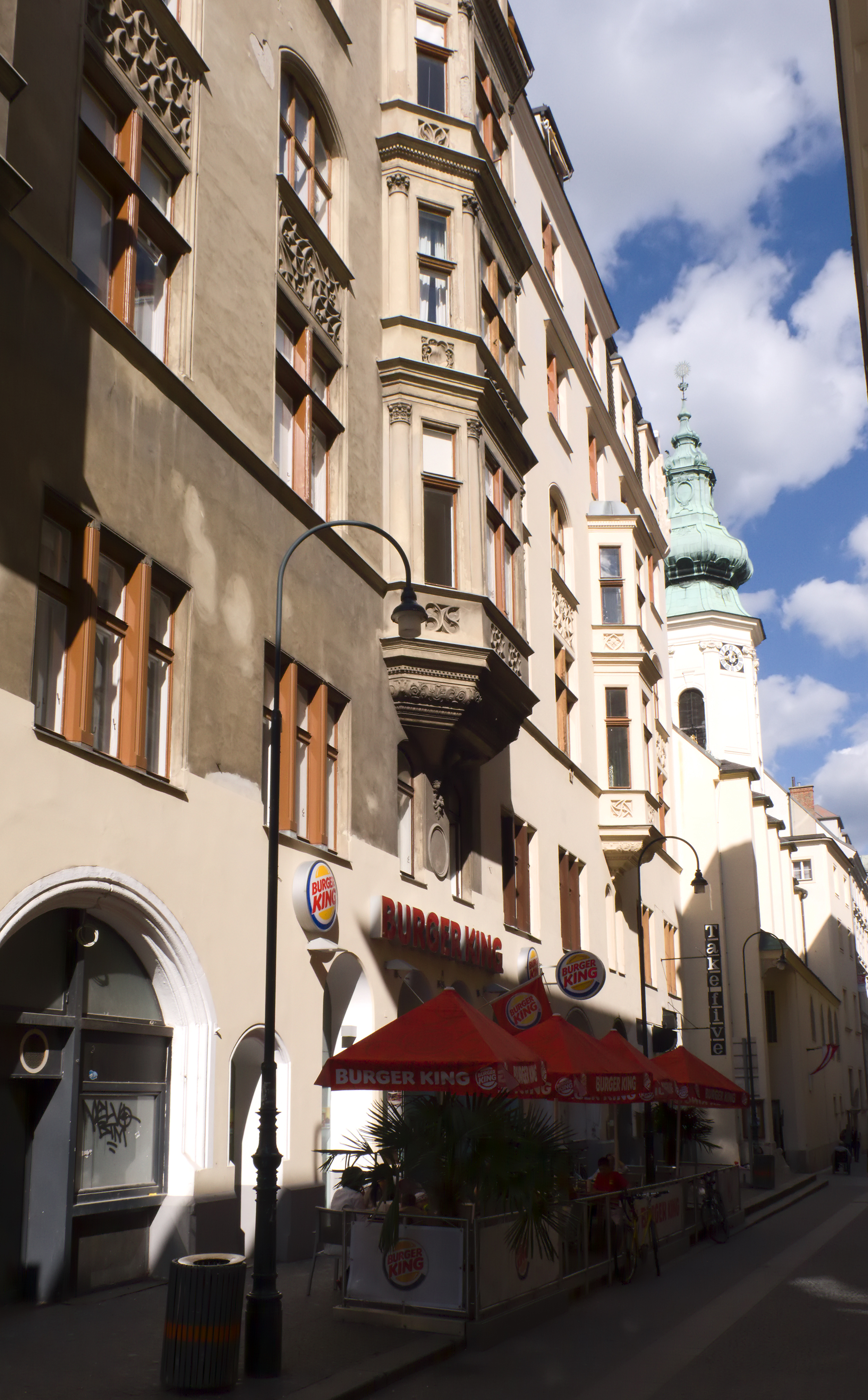 Annagasse in Vienna Inner City, Haus Nr.3a, St. Annahof (Wien)